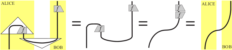 Illustration of the diagrammatic calculus: the quantum teleportation protocol as modeled in categorical quantum mechanics